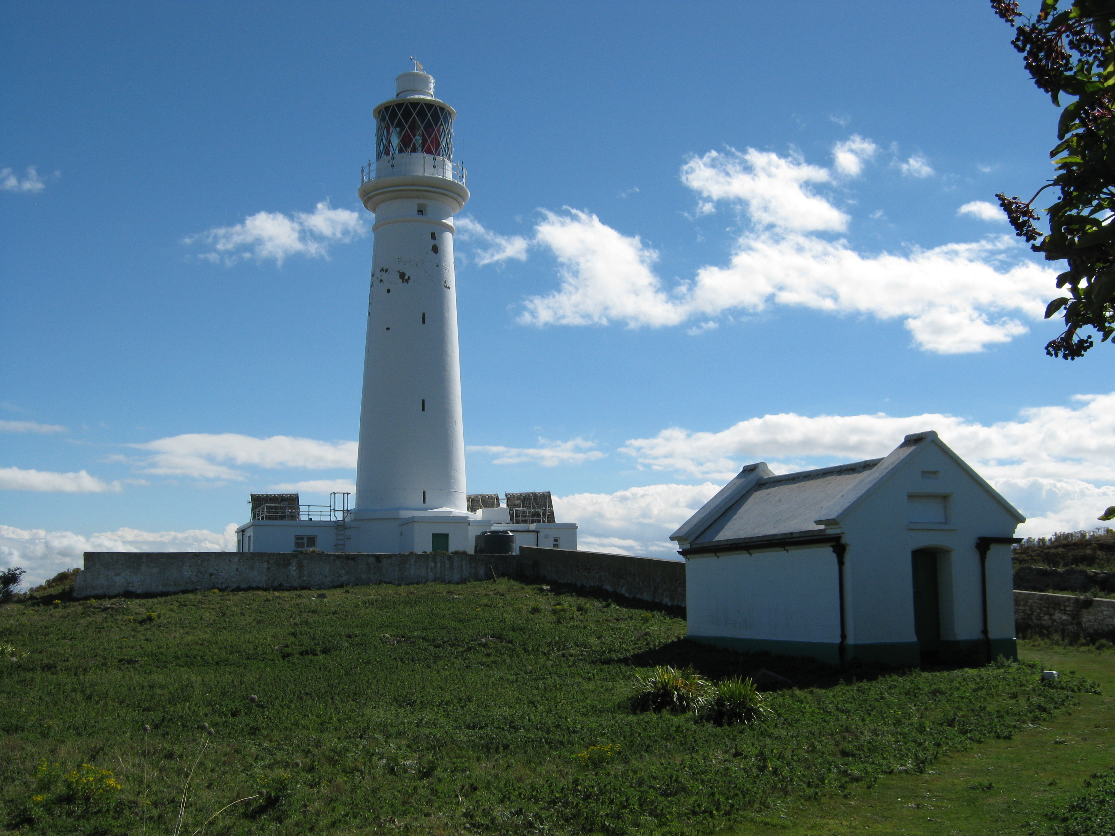 Lighthouse, Flat Holm.